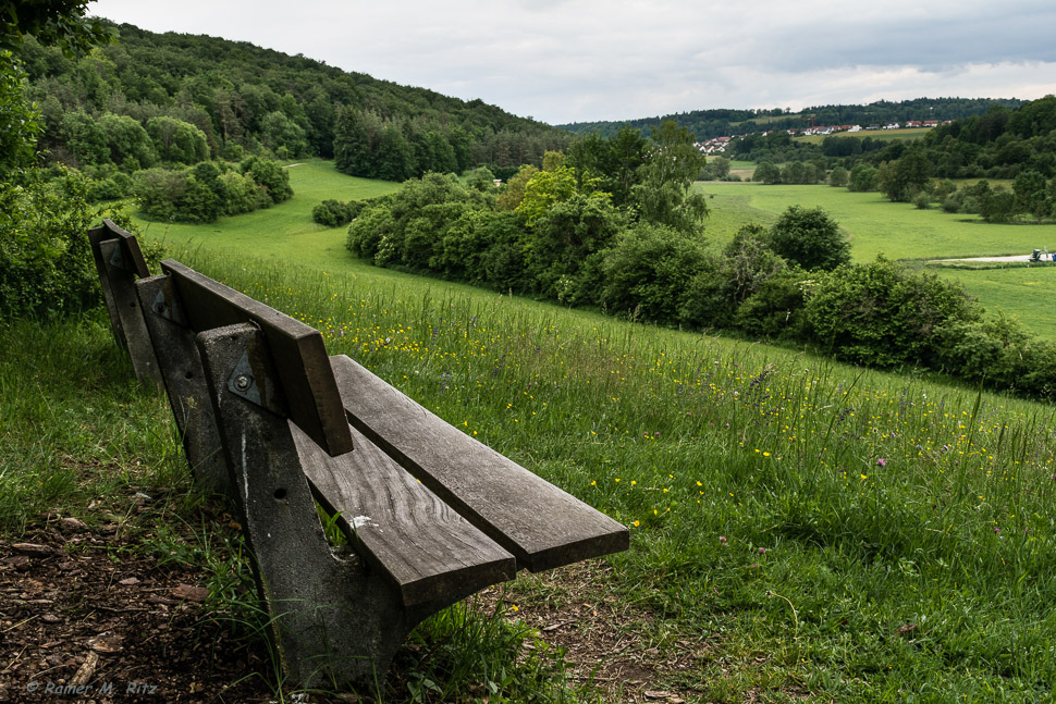 The Würm valley between Aidlingen and Dätzingen looking towards Aidlingen